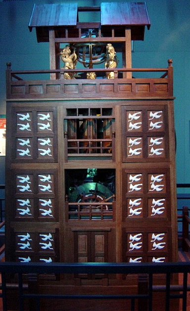 Su Song's Water Clock (?). This picture is a scaled model of Su Song's water-powered clock tower. The original clock tower was 35 feet tall. It was a 3 story tower with an armillary sphere on the roof, and a celestial globe on the third floor. This picture was taken in July 2004 from an exhibition at Chabot Space & Science Center in Oakland, California. The quality of the picture is not ideal because flash photography was not allowed.